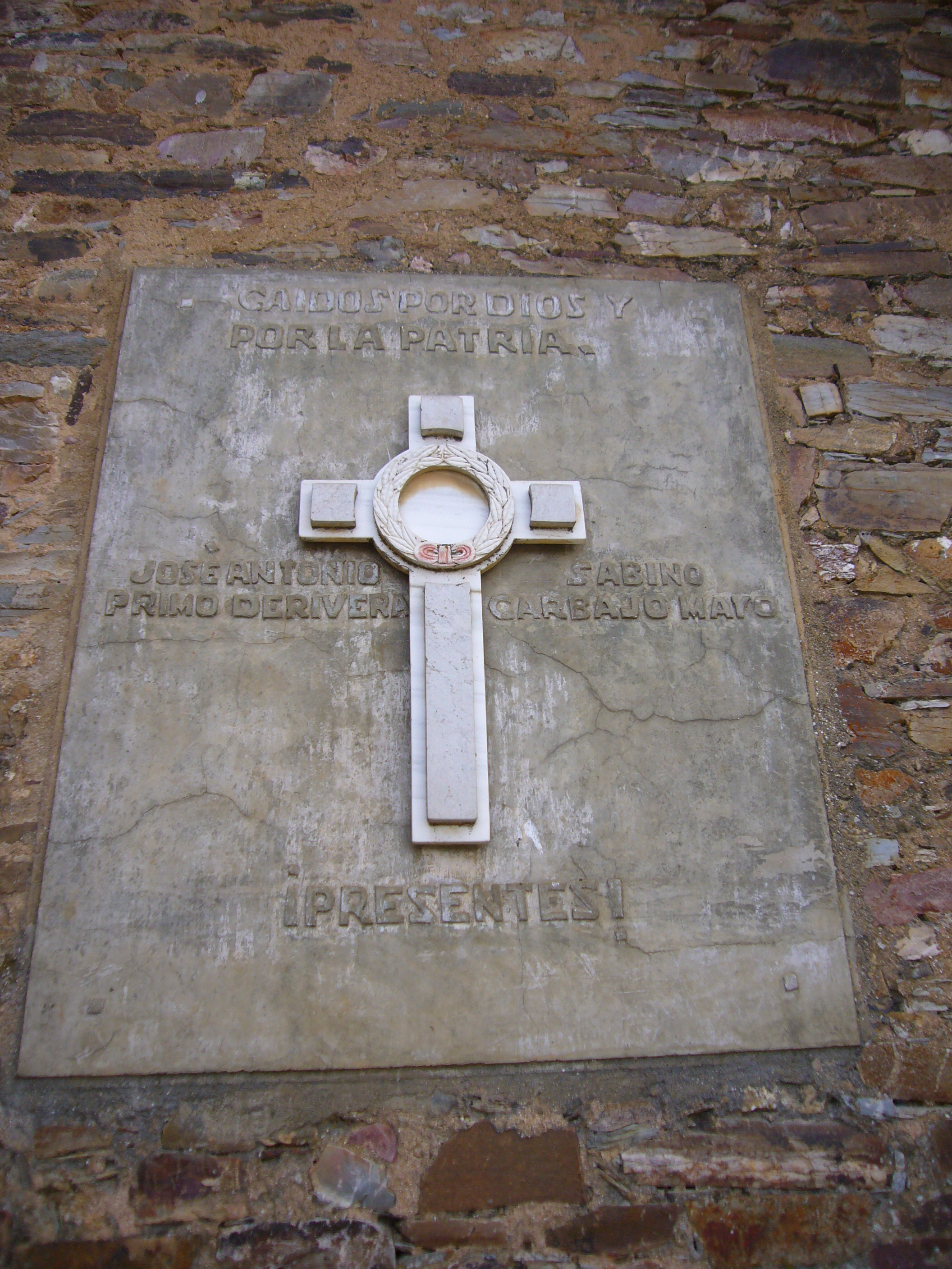 Recorded with the slogan "fallen for God and the homeland" on one of the outer walls of the church in Ferreruela, Zamora (Spain).